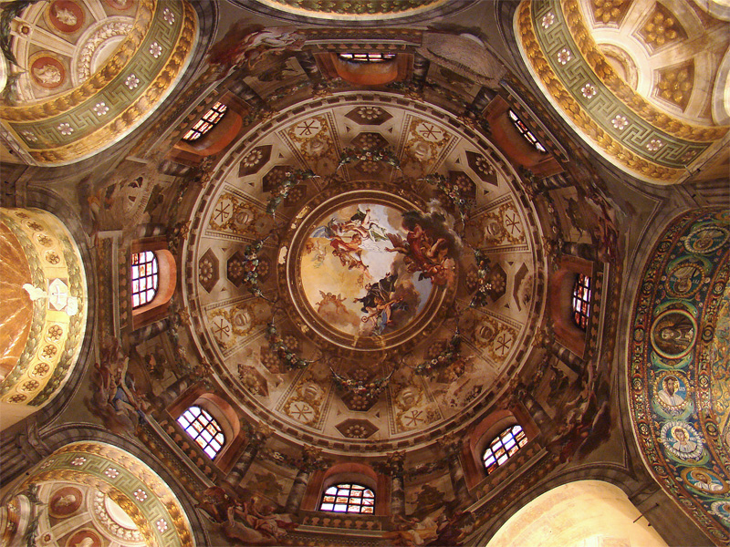 Basilica of San Vitale, Ravenna, Emilia-Romagna, Italy. The vault.